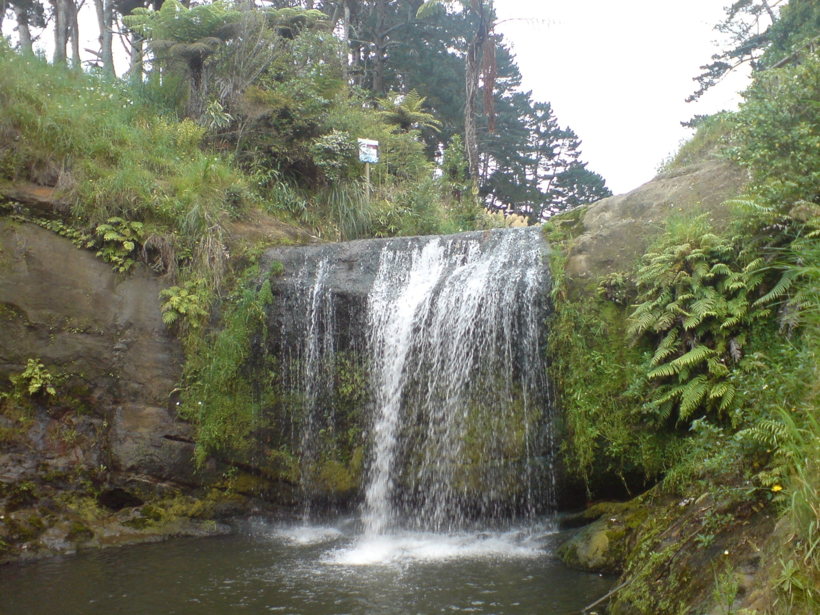 Oakley Creek in Auckland City, New Zealand. The waterfall is thought to be the only one in Auckland City, and the largest one in urban Auckland.